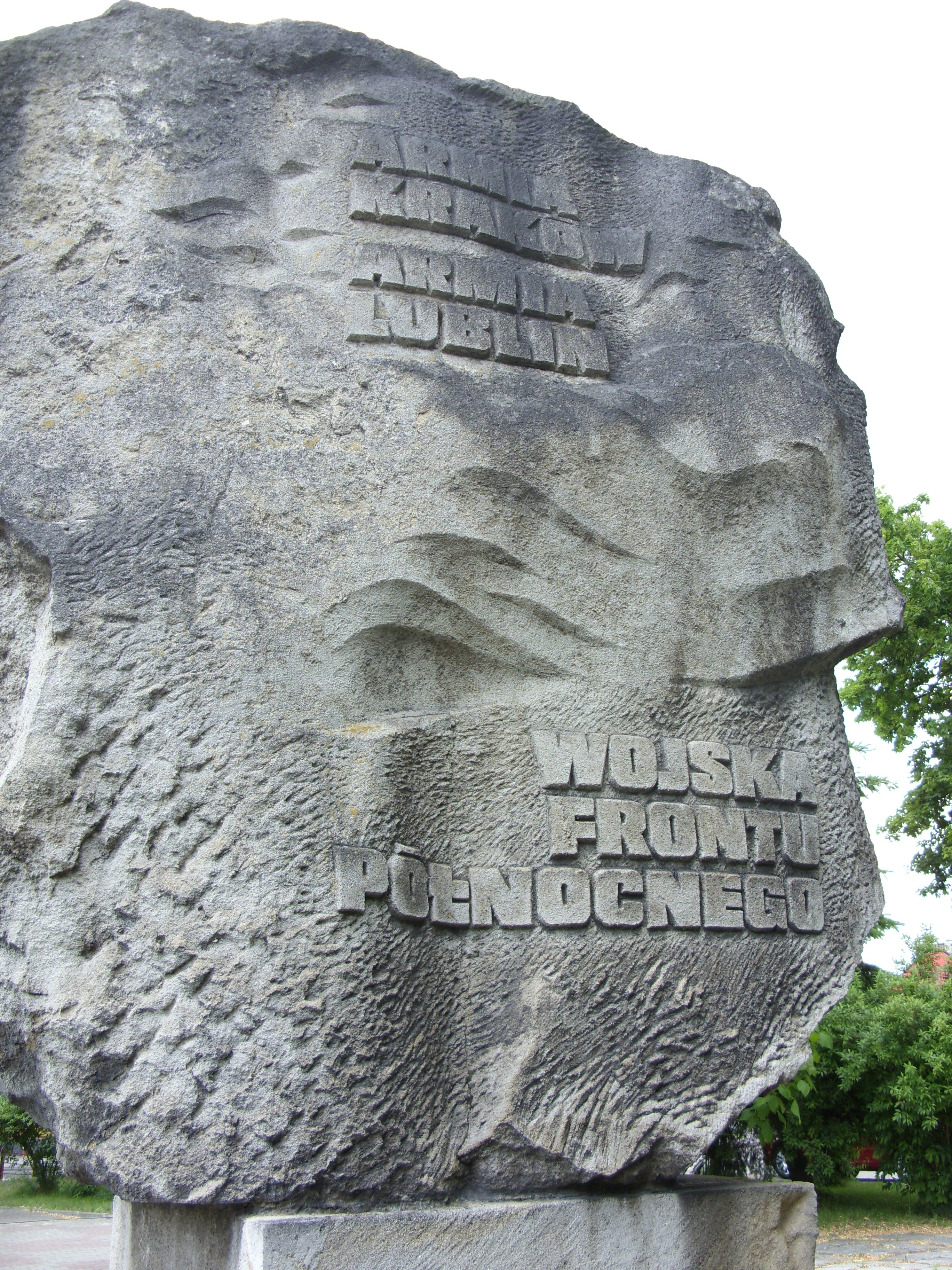 Monument to the Soldiers of September 1939 in Tomaszów Lubelski, back of the monument. 1939 Polish Defense War against Nazi Germany.